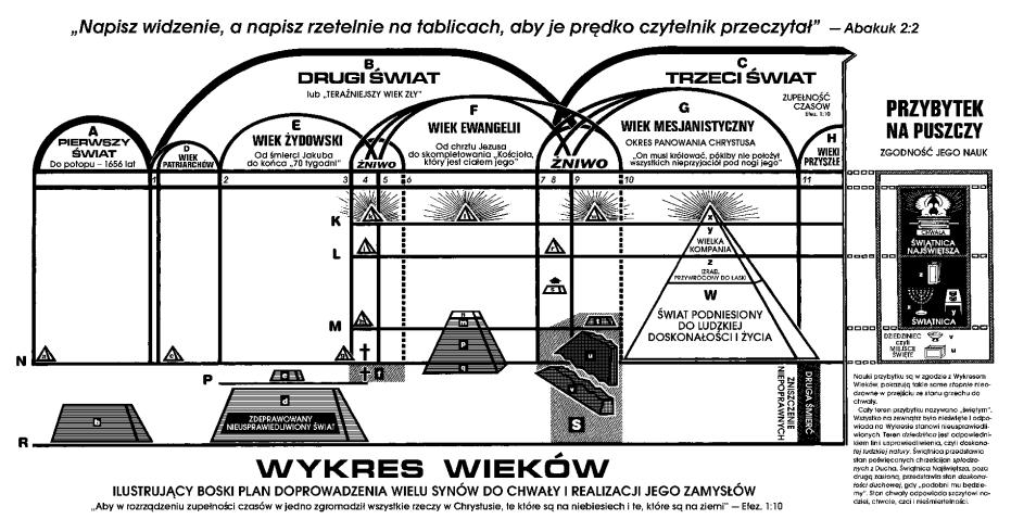 boskiplan